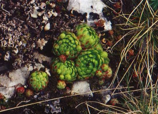 Sempervivum globiferum subsp. globiferum, Lochenstein, Deutschland